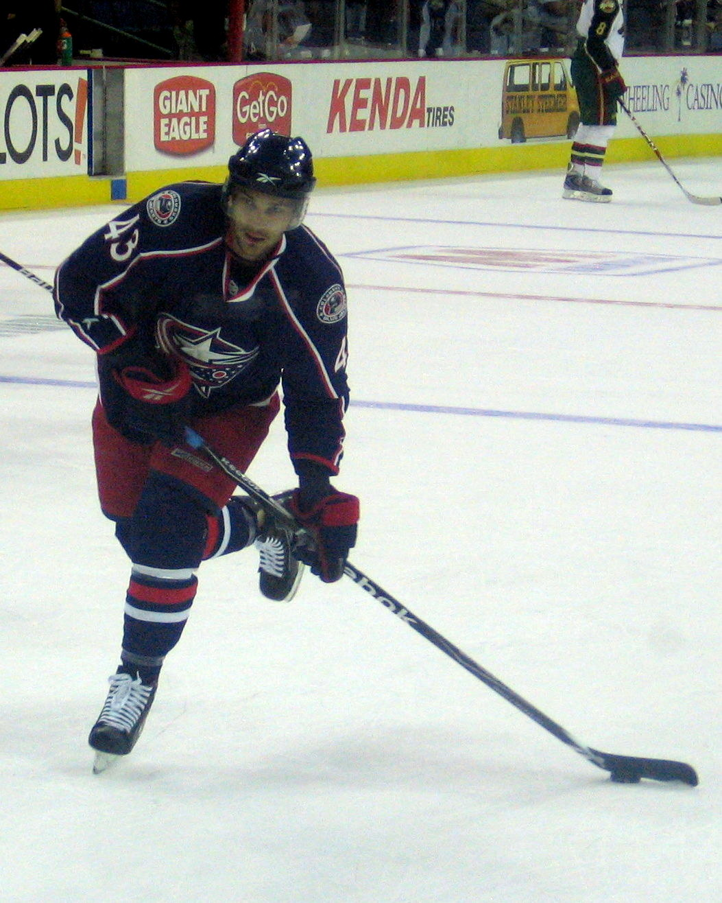 Columbus Blue Jackets prospect Maxim Mayorov prepares for a pre-season game against the Minnesota Wild at Nationwide Arena.